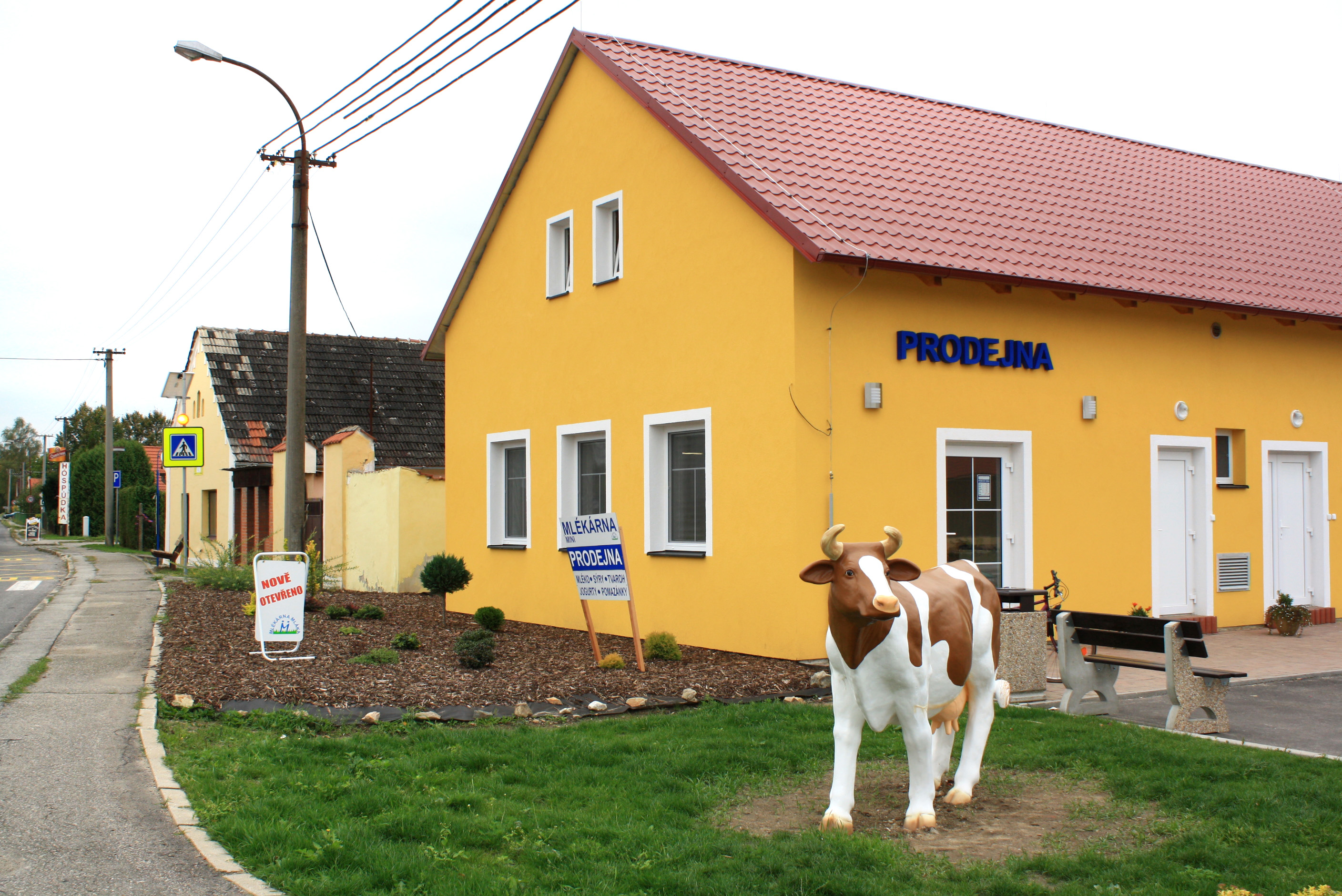 Dairy in Mláka, part of Novosedly nad Nežárkou, Czech Republic